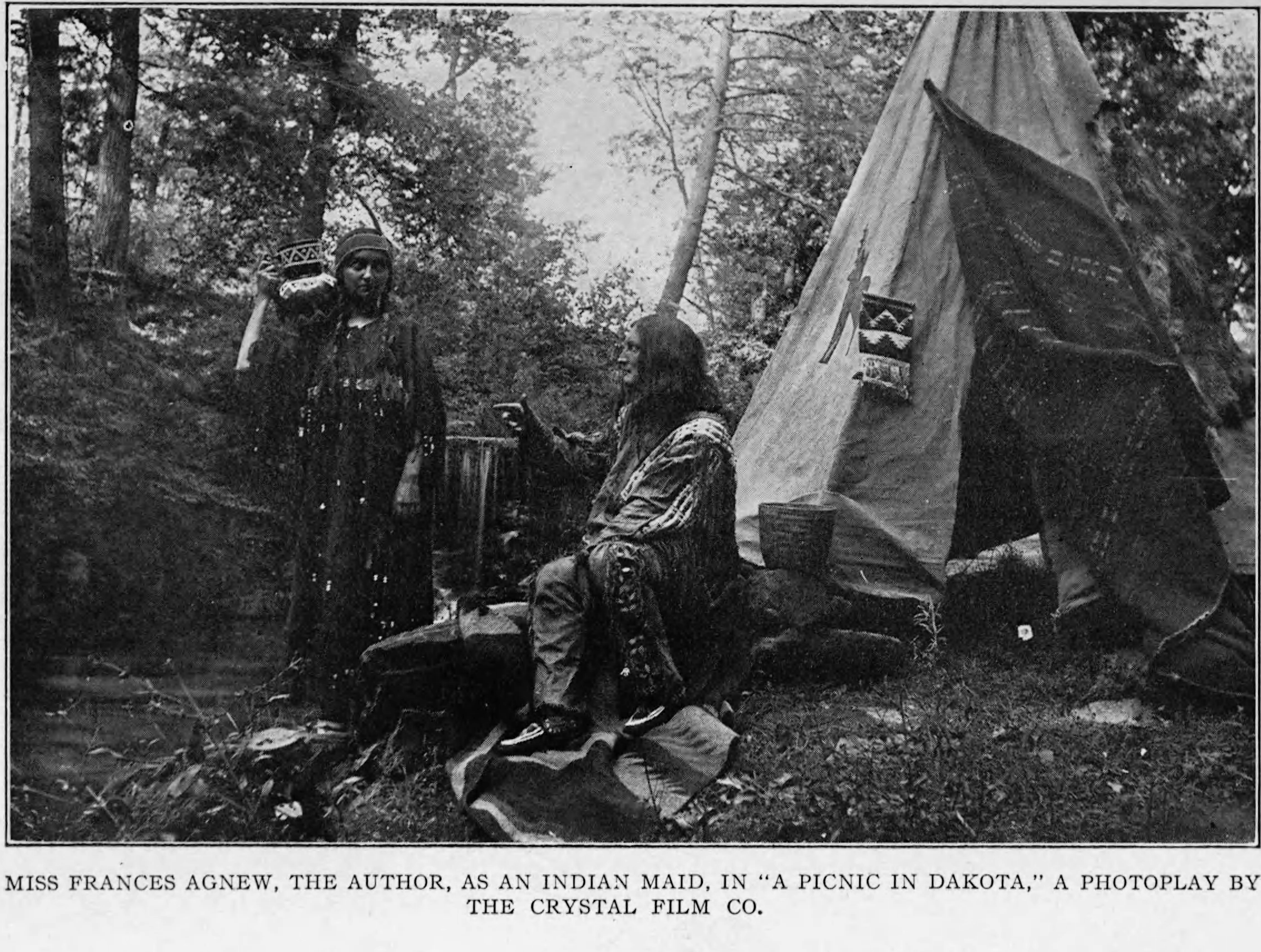 From the Francis Agnew Book in 1913 titled Motion Picture Acting: How to Prepare for Photoplaying, what Qualifications are Necessary, how to Secure an Engagement, Salaries Paid to Photoplayers[1]